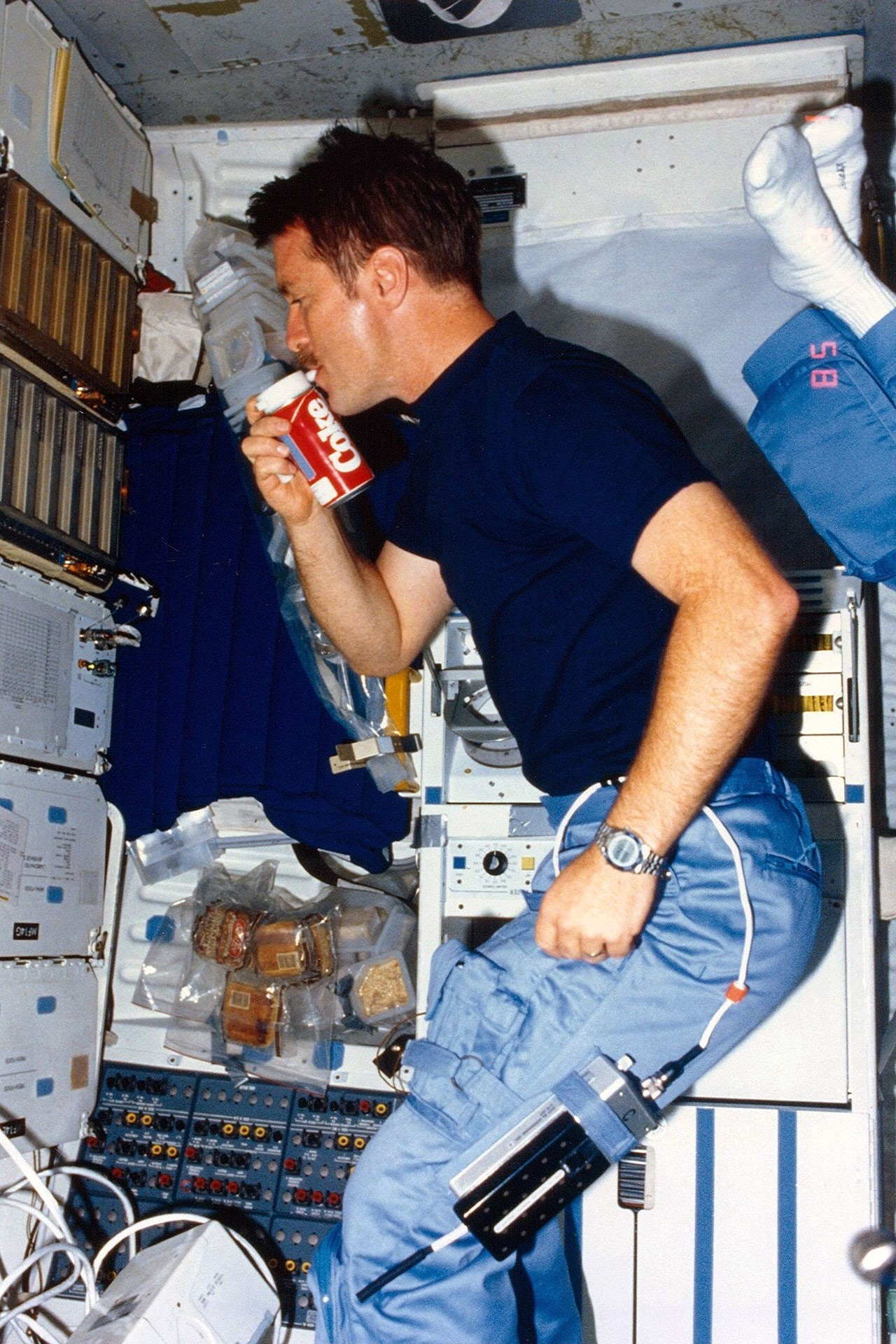 One of the items the astronauts might like to have when they are on orbit is soda, or carbonated beverages. Many years back, they decided to fly the soft drink Coca Cola® on the shuttle. First, it had to be packaged in a special can to keep it under pressure so it wouldn't lose its carbonation, and to keep it under pressure so the soda and the carbonation would not separate in microgravity. Not only is carbonation difficult in microgravity, it causes you to burp. On earth, that's not such a big deal, but in microgravity it's just gross! Because there is no gravity, the contents of your stomach float and tend to stay at the top of your stomach, under the rib cage and close to the valve at the top of your stomach. Because this valve isn't a complete closure (just a muscle that works with gravity), if you burp, it becomes a wet burp from the contents in your stomach. I've been told this is NOT pleasant!